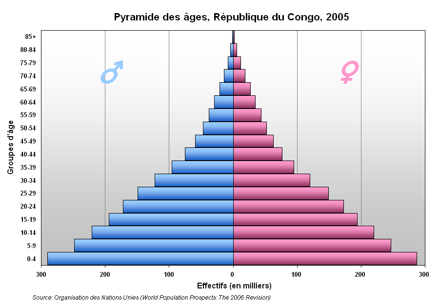 Republic of the Congo Population pyramid, 2005